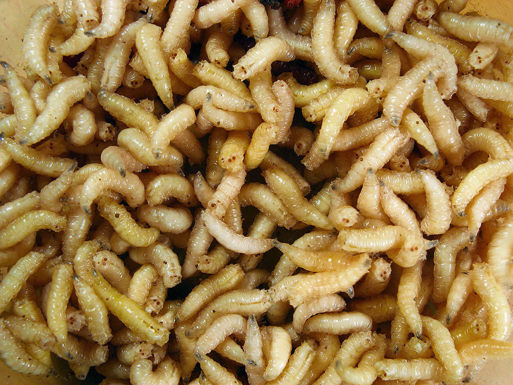 Musės lerva